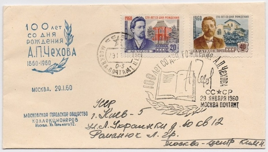 USSR 1960-01-29 cover sent from Moscow to Kiev. First day cancellation.